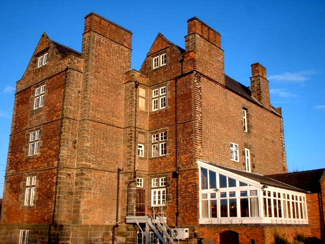 Weston-on-Trent Hall. Now a pub called Coopers Arms. Built about 1634 by Antony Roper.